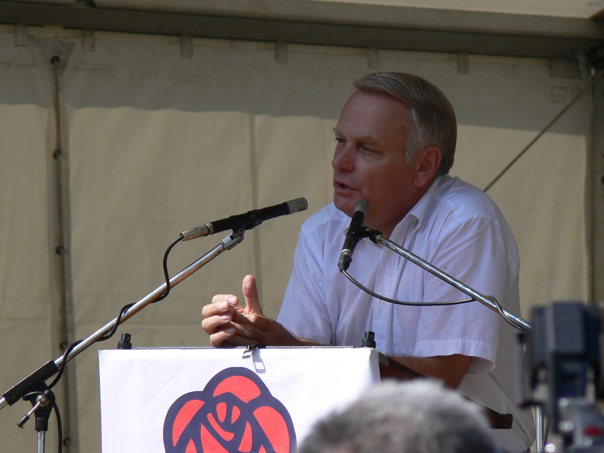 Jean-Marc Ayrault, French politician.